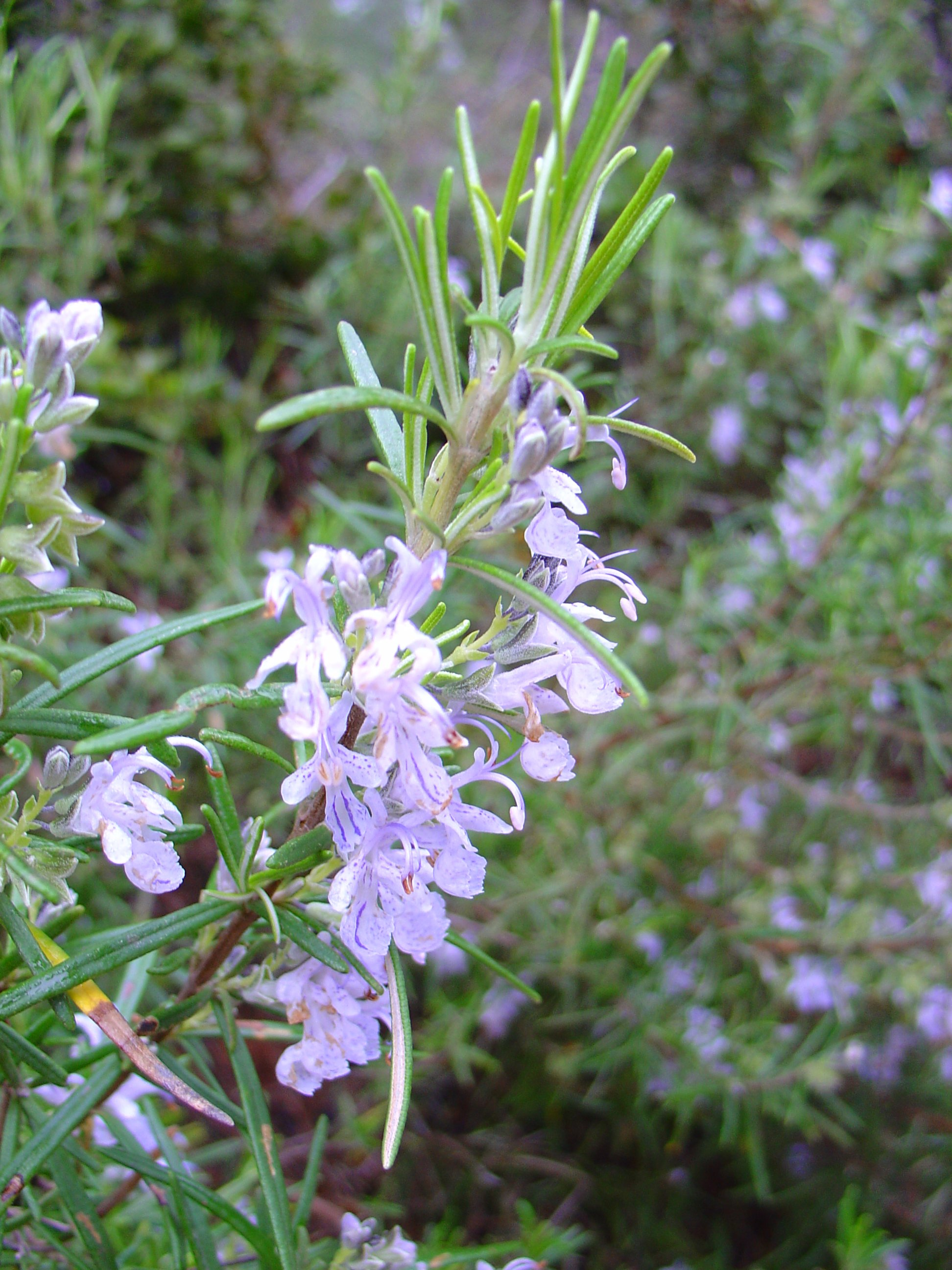 Rosmarinus officinalis from Sª Espuña, Murcia, Spain